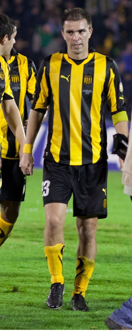 Carlos Adrián Valdez at the end of the first half of the first leg of the 2011 Copa Libertadores final between Peñarol and Santos, at Centenario Stadium.